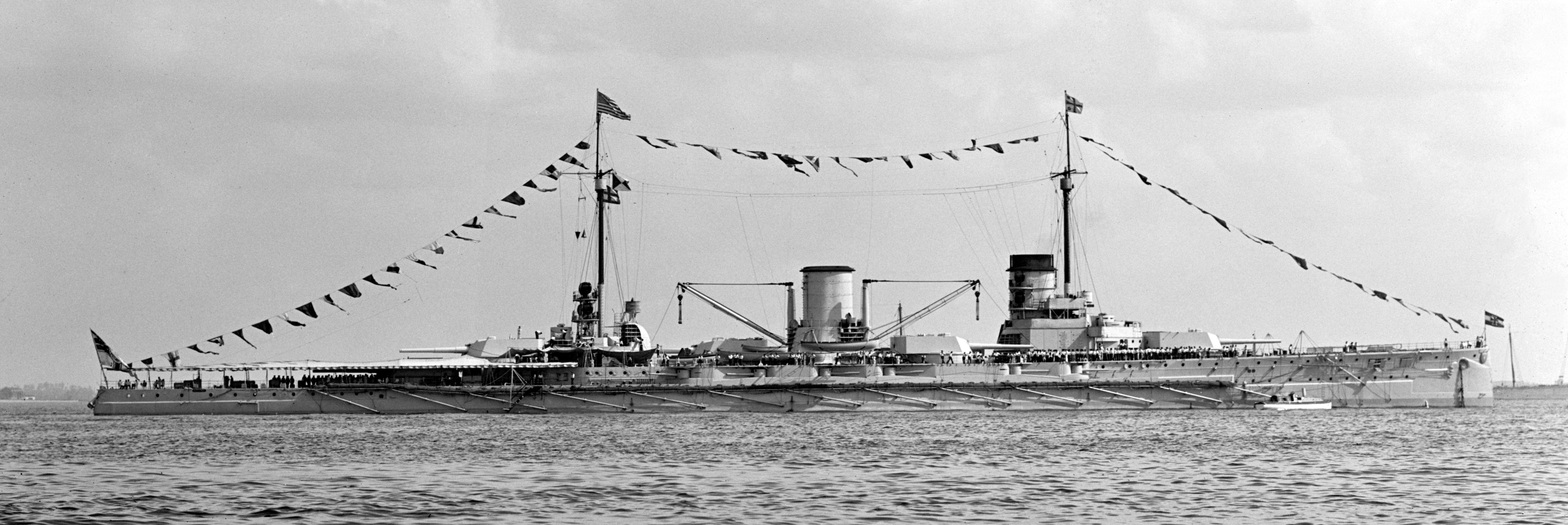 SMS Moltke during the visit of a German navy squadron to US in 1912